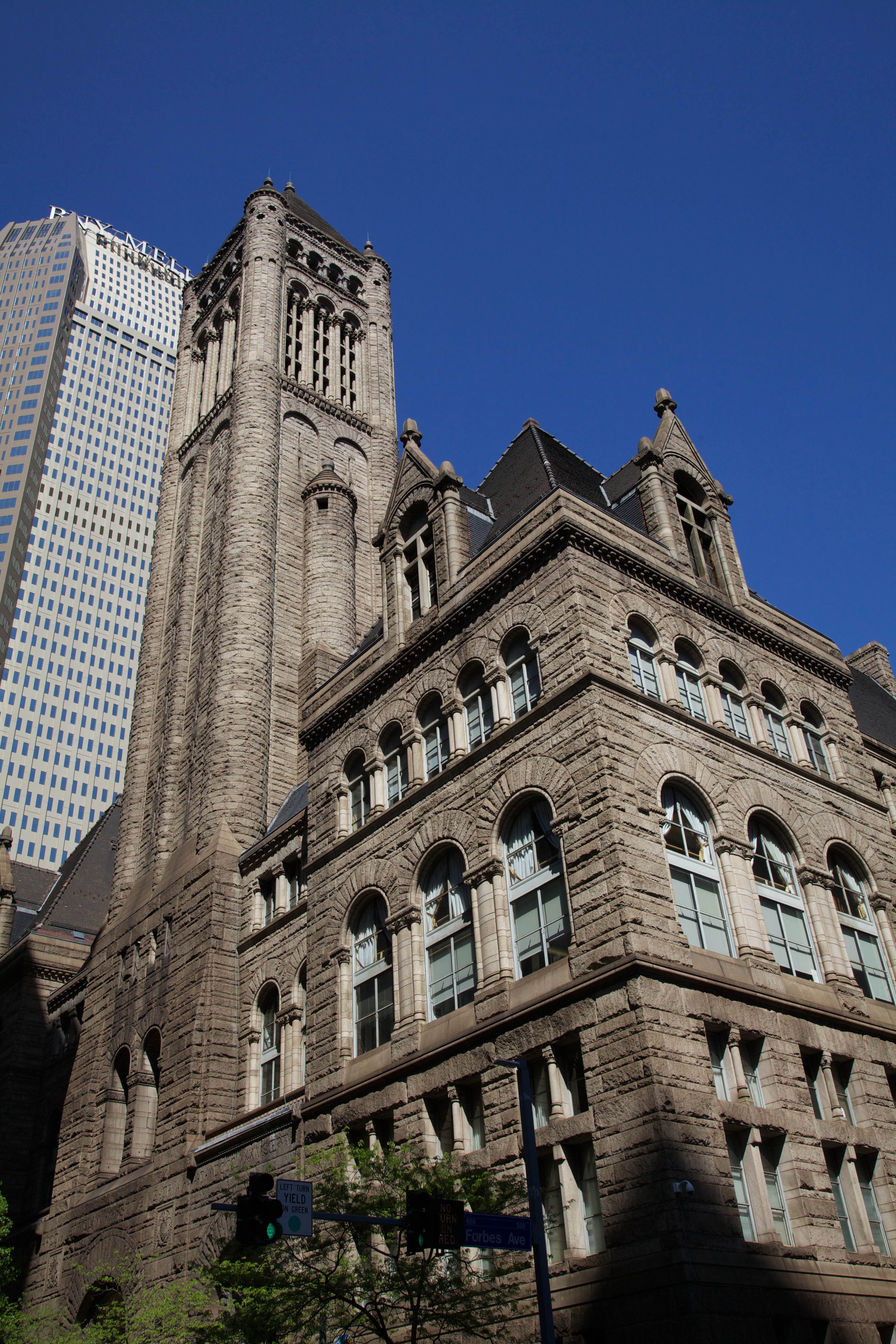 The County courthouse and jail in Pittsburgh is a remarkable bit of Romanesque architecture. Designed by Henry Hobson Richardson and built in 1886.